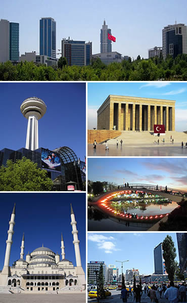 Photos used in this montage (from top to bottom and from left to right: . Sogutozu Ankara Turkey.jpg . Atakule.JPG . Anitkabir Mausoleum Ataturk.JPG . KocatepeMosque.jpg . File:Genclik Park (6526102911).jpg . File:Ankara Kizilay square.JPG